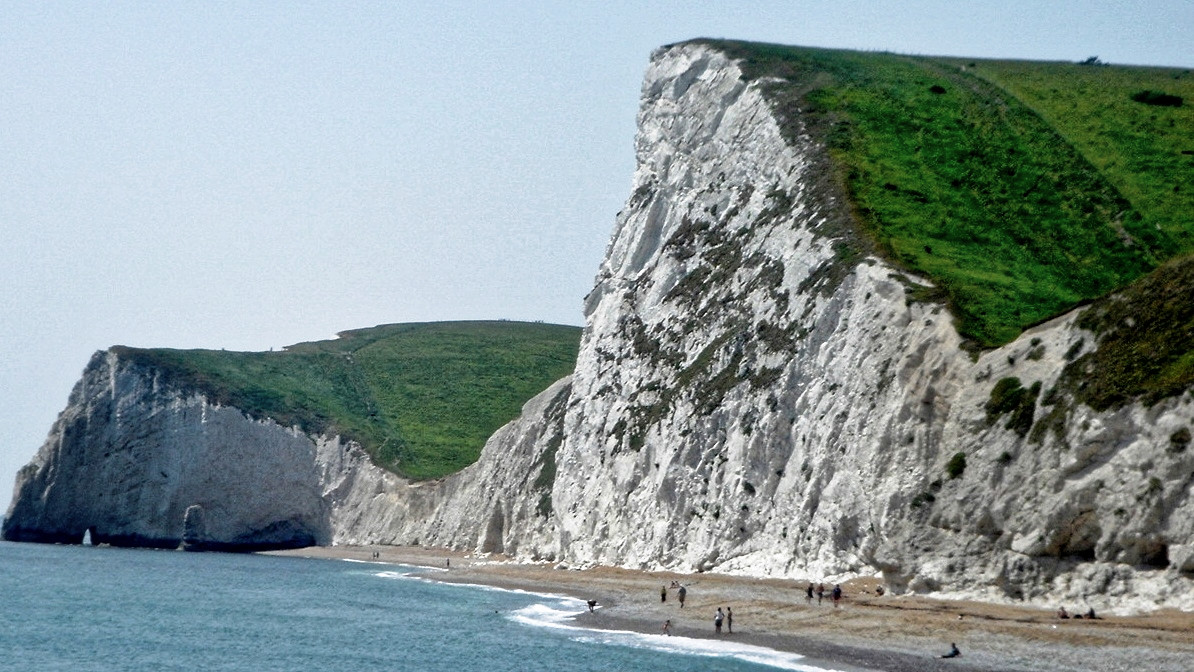 Coastal rock in the Jurassic Coast , Dorset, England